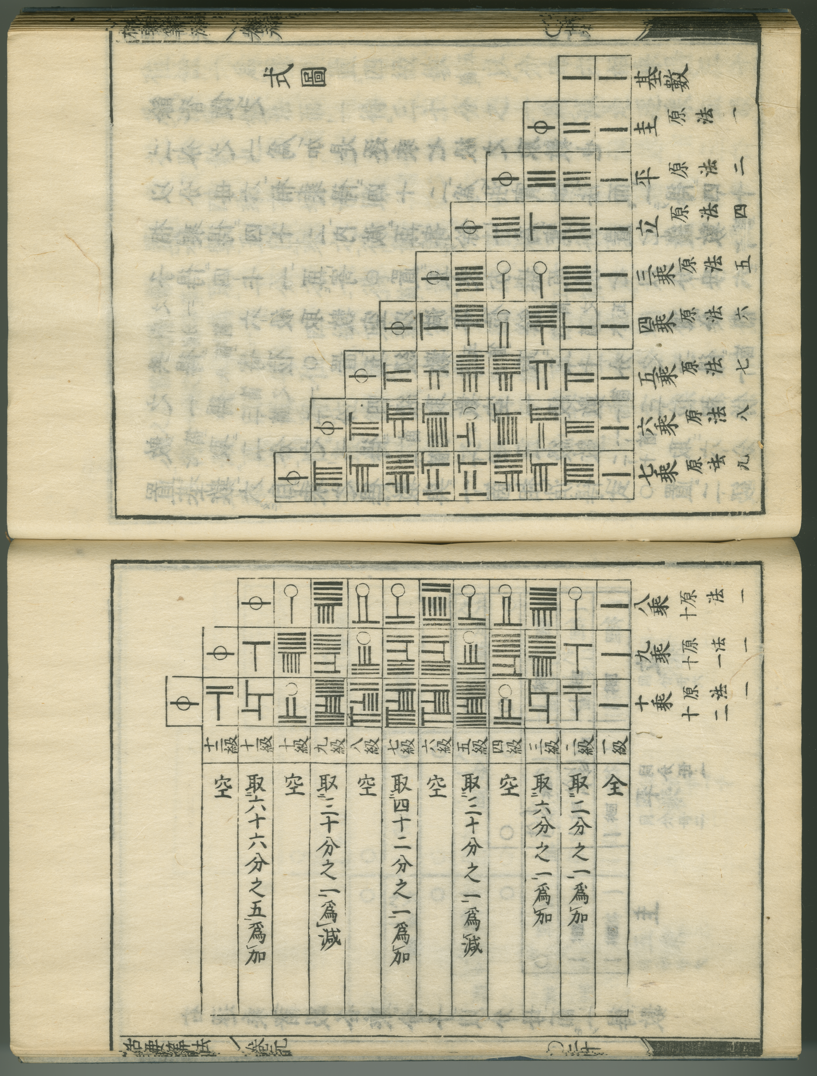 This is a facsimile of the pages from the Katsuyo Sampo of Seki Kowa that tabulate the binomial coefficients and the Bernoulli numbers. Seki died in 1708, and the work was published in 1712, so it is in the public domain. I obtained the file itself from the the web site of the Mathematical Association of America, here, then converted it from TIFF to PNG format. The main portion of the table displays the binomial coefficients arranged in Pascal's triangle. The coefficients are written using rod numerals. The bottommost row tabulates the Bernoulli numbers. The rightmost value is a special case, 全 ("everything"). Each of the other entries is either 空 (zero, literally, "empty") or a fraction n/d in the form d分之n. (See Chinese_numerals#Fractional_values for an elaboration of this notation.) There is a small double mark 二 in the margin before the denominatord and a small single mark 一 in the margin after the numerator n. So for example the fraction in the third column from the right (representing B 2 {\displaystyle B_{2 ) is written as 六分之一, which means 1/6; the fraction in the seventh column ( B 6 {\displaystyle B_{6 ) is written 四十二分之一, which means 1/42. The sign is given by the characters under the marginal 一 mark, with 爲加 ("add") indicating positive values, and 爲減 ("reduce") indicating negative values. The complete reading of the bottom row, right to left, is: "everything", 1/2, 1/6, 0, -1/30, 0, 1/42, 0, -1/30, 0, 5/66, 0. —Dominus